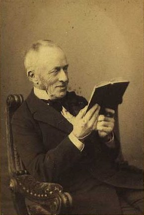 Frederik Ferdinand Ulrik (1818-1917), Danish physician